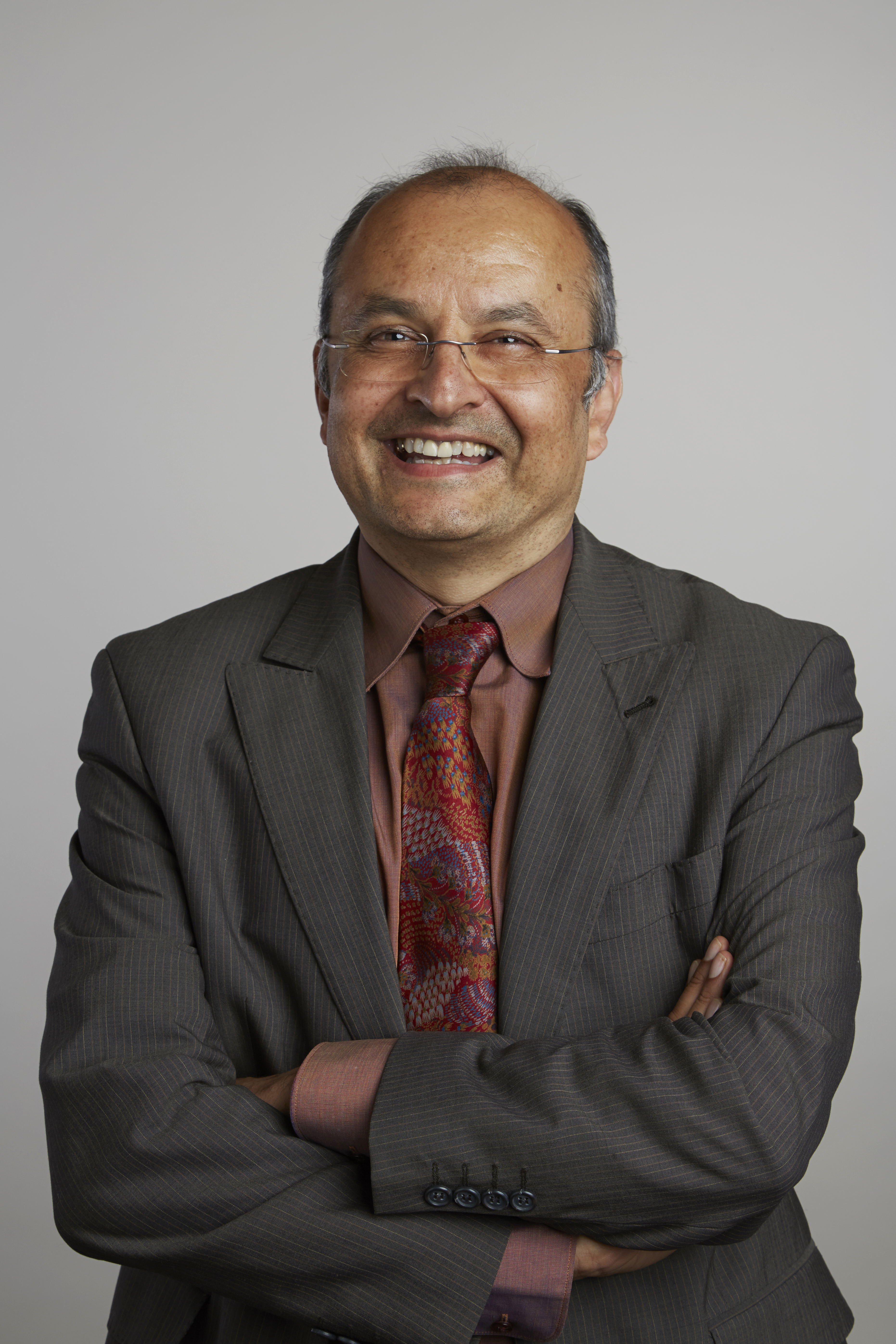 KJ Patel has made seminal discoveries on the Fanconi pathway of DNA repair. Deficiencies in this pathway lead to defective development, stem cell attrition and cancer in humans. Patel has unveiled the primary role of the Fanconi pathway in resolving DNA damage caused by aldehydes (whether generated by endogenous metabolism or though oxidation of ingested substances such as ethanol). He has also advanced our knowledge of the molecular mechanism of action of the pathway and thrown light on its roles in preserving blood stem cells as well as in protection from cancer. Attribution: The Royal Society